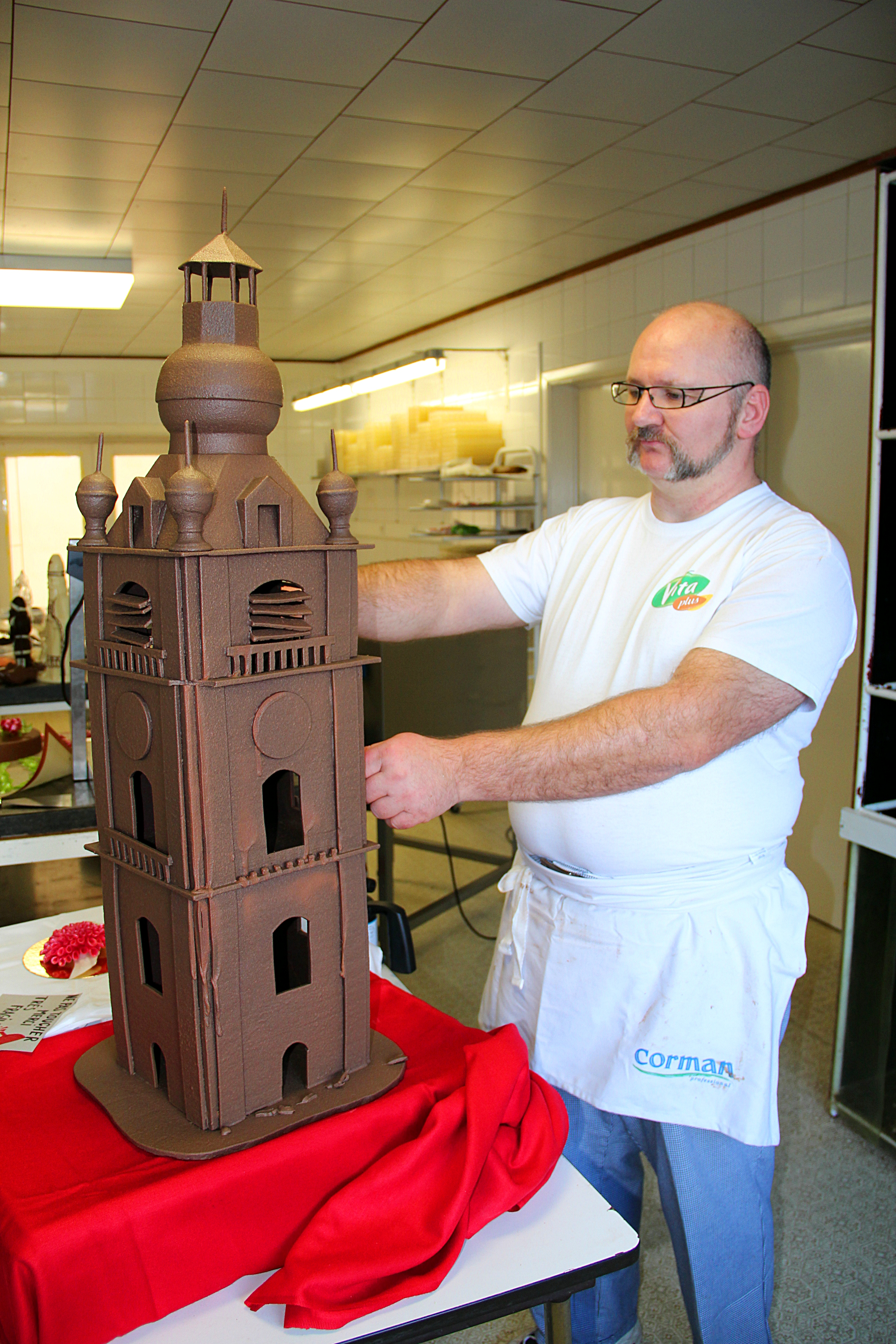 The chocolatier of the Godefroid bakery in Frameries making a chocolate tower.